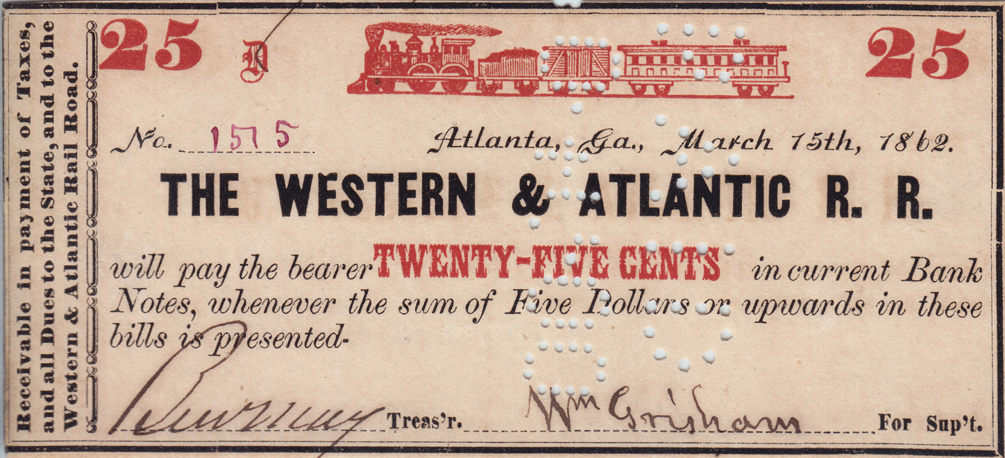 The Western & Atlantic Railroad 25¢ bearer certificate, Atlanta, GA, March 15, 1862